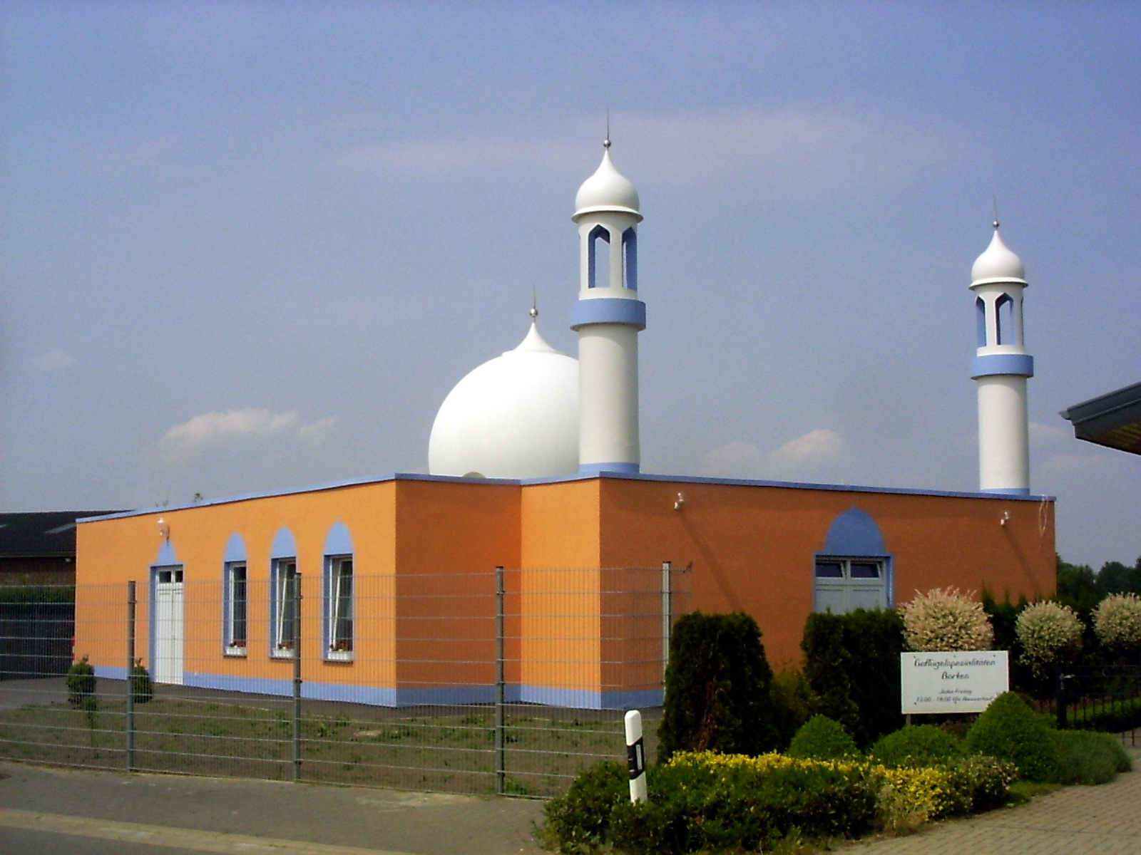 Mosque at Isselburg (de)